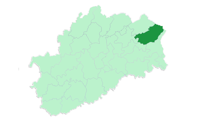 Canton of Mélisey